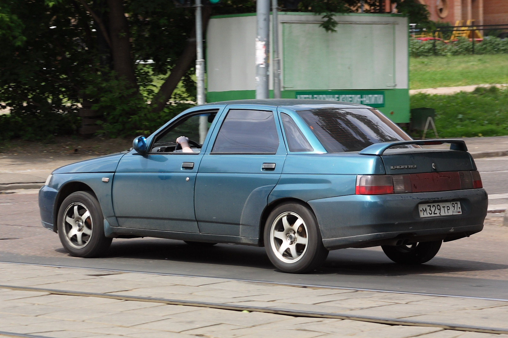 Lada 21106, a hot version of Lada 2110 (also known as Lada 110).